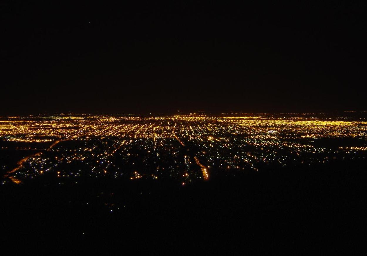 Author: jlazarte Image: Night view of the Tucuman Metropolitan Area from the San Javier Hills